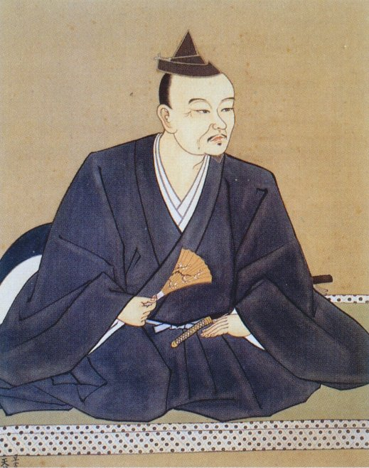 北条氏綱、後北条氏二代目当主。戦国時代の日本の関東地方の大名。Hōjō Ujitsuna(1487–1541) was the son of Hōjō Sōun, founder of the Go-Hōjō clan.